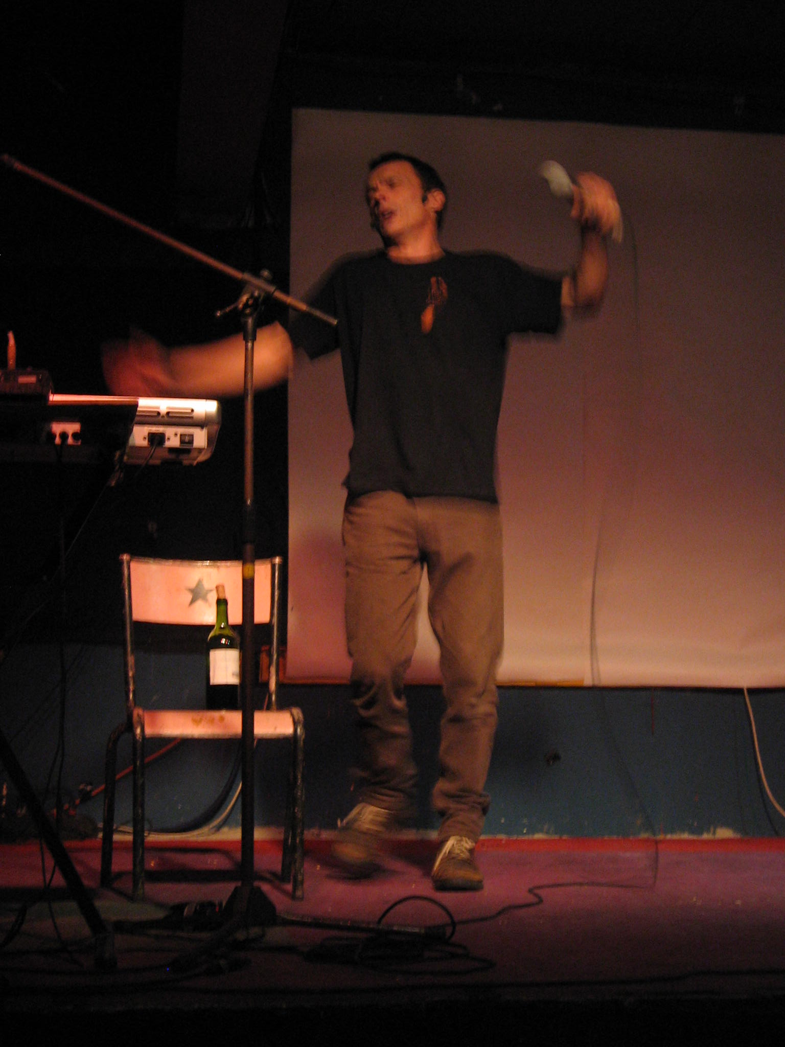 French performer, singer and keyboardist Jean-Louis Costes during a live performance in Dijon, France, june the 5th, 2009.